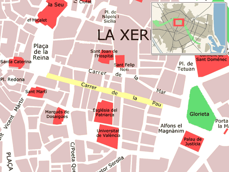 Street map of Valencia showing the street named in the title. Modification of Image:Ciutat_vella2.jpg, licensed in the public domain, by Felivet.